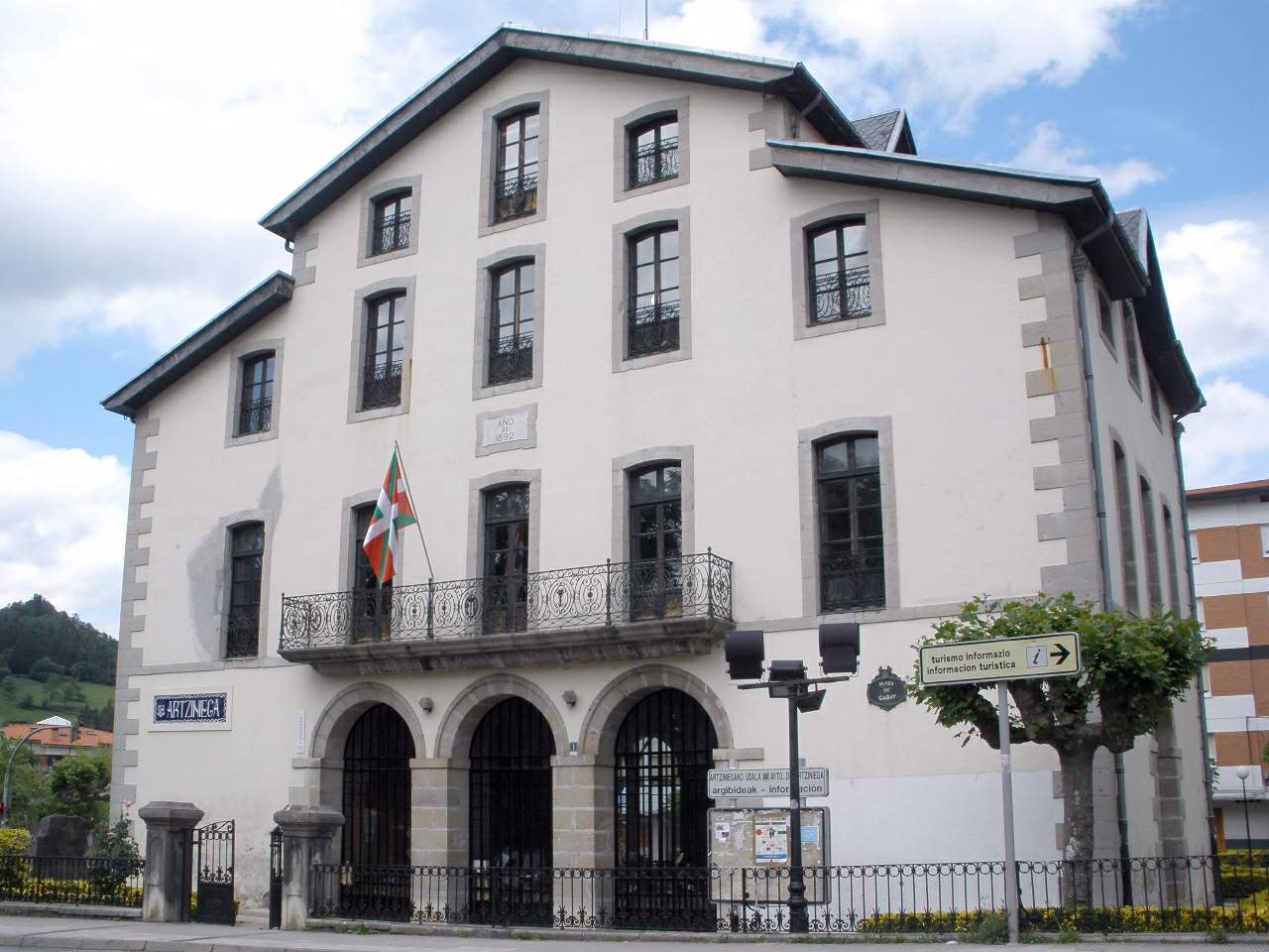 Ayuntamiento de Artziniega